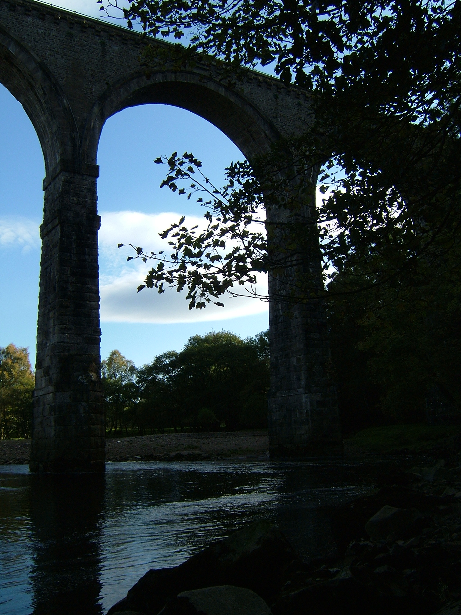 The 13 arch Lambley viaduct was constructed over the River South Tyne in 1852 to complete theAlston Line between Haltwhistle in Northumberland and Alston in Cumbria. The line closed in May 1976. The trackbed is now a walking trail, the South Tyne Trail [1] From the river looking upstream